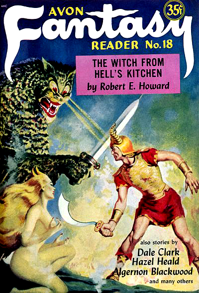 Cover of the fantasy fiction magazine Avon Fantasy Reader no. 18 (1952) featuring "The Witch from Hell's Kitchen" by Robert E. Howard. PNG version of this file.